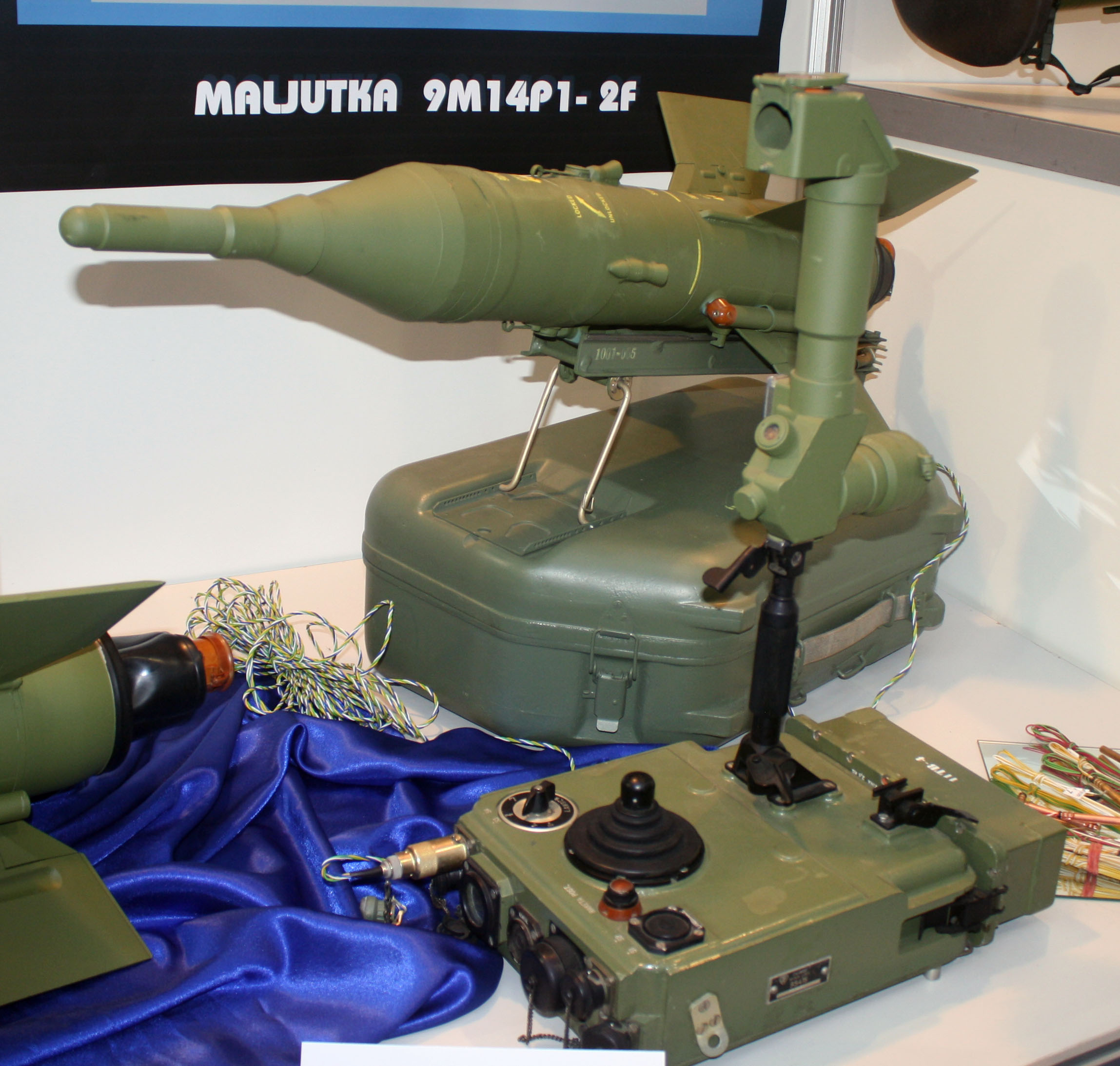 Maljutka 9M14P1-2F modernized anti-tank missile on display at "Partner 2015" military fair.